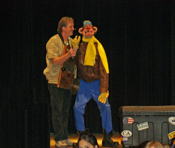 Ventriloquist Wayne Francis calls attention to the photographer as he entertains children at the Pueblo, Colorado Buell Children's Museum.